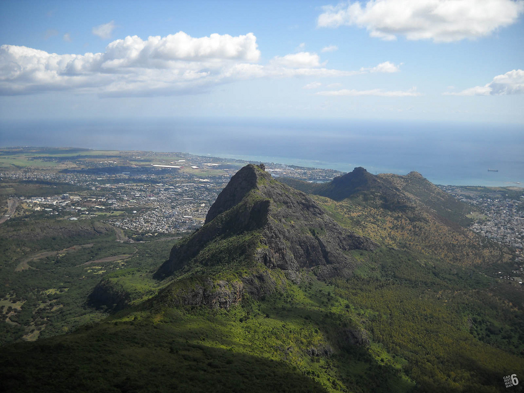 Part of the Moka Range taken from peak of Le Pouce mountain. The village Les Pailles is in the background on the left of the mountains, a part of Port Louis can be seen on the right of the mountains.